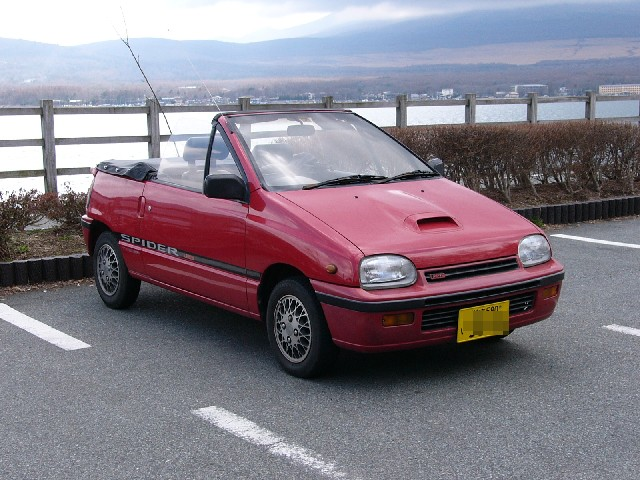 DAIHATSU Leeza SPIDER (E-L111SK) 1992 model